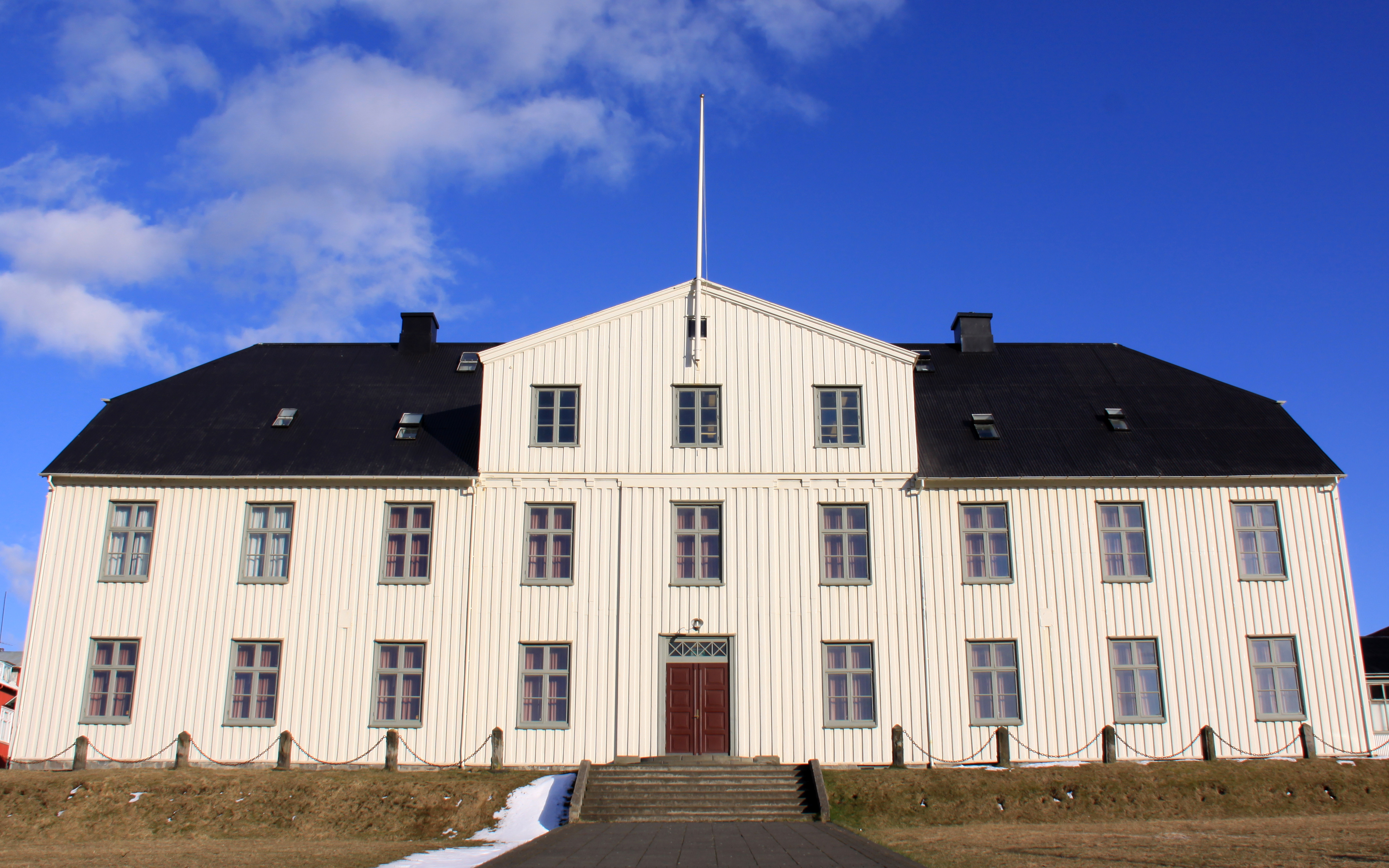 Menntaskóli (High School) in Reykjavík